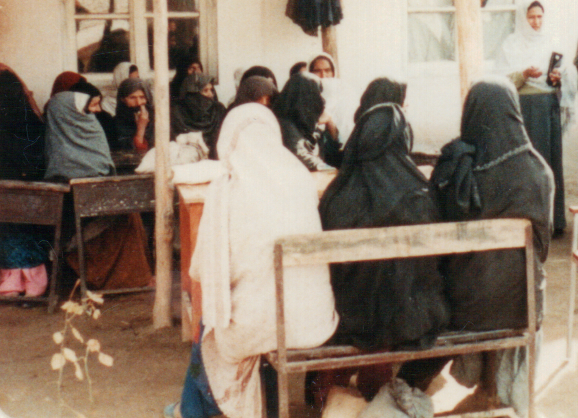 Ahmed Said Khadr's school for girls